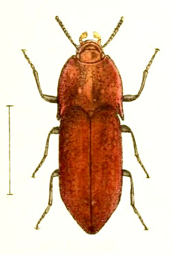 Psorochroa granulata (now Amychus granulatus), from Waterhouse (1880–90), Aid to the Identification of Insects.